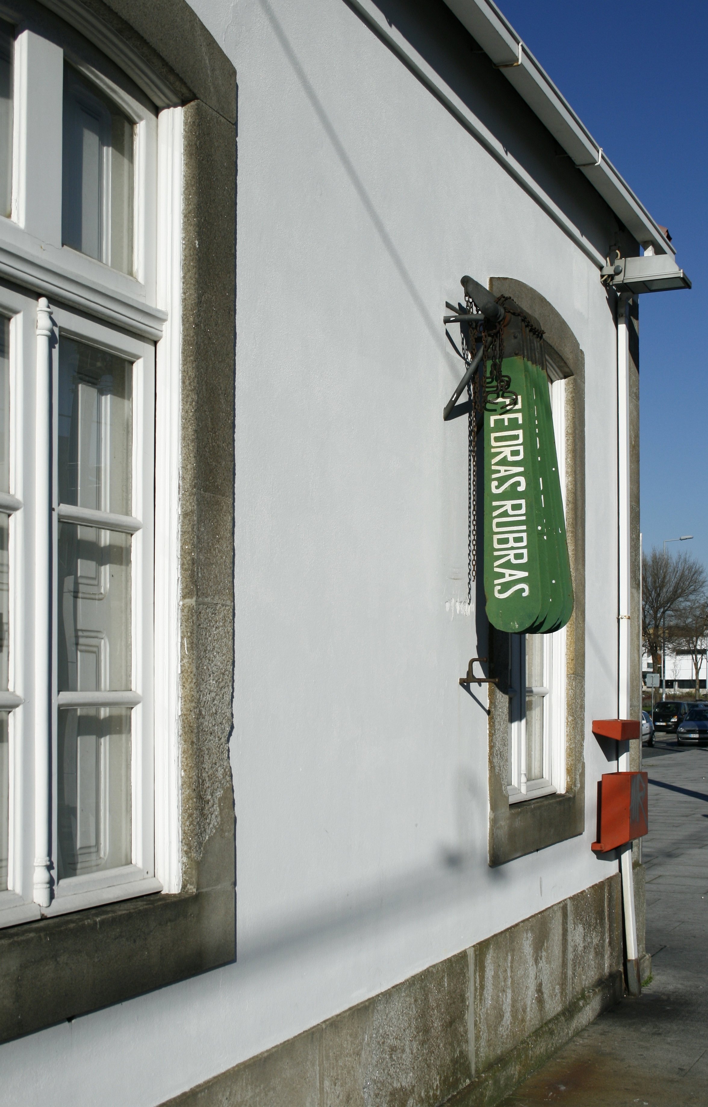 Destination indicators in the main building of the old Senhora da Hora Train Station, in the city of Oporto, in Portugal.